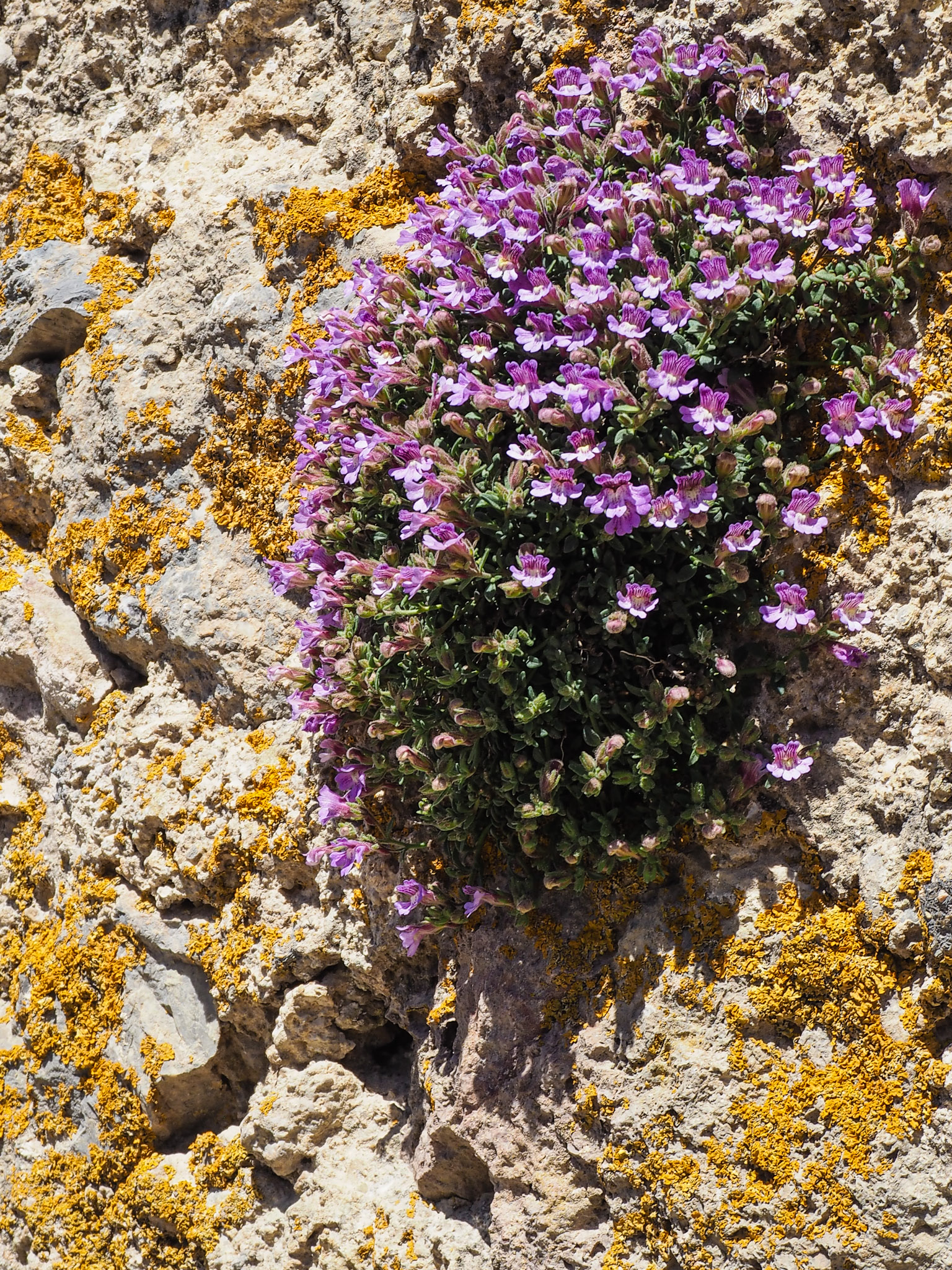 Growing on the wall of Château de Quéribus